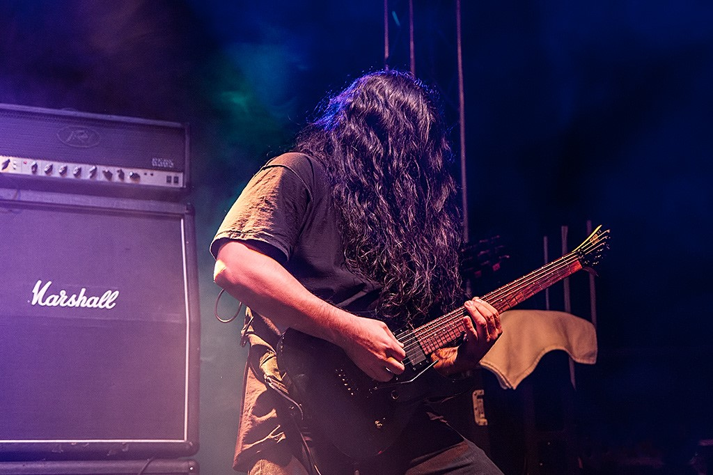 Obituary - 7.12.2012 - Music Hall, Geiselwind